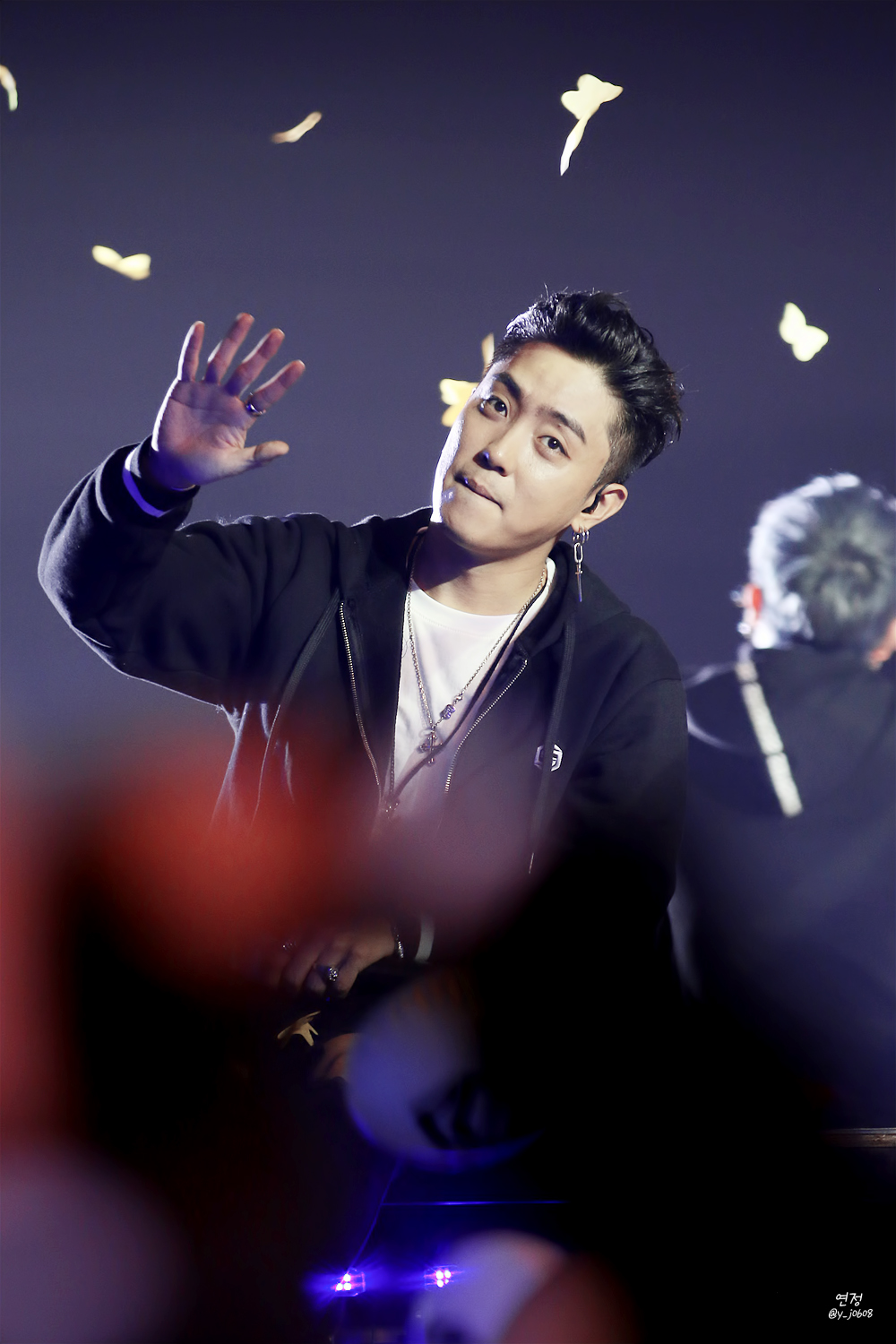 161210 Eun Ji Won at Yellow Note Concert